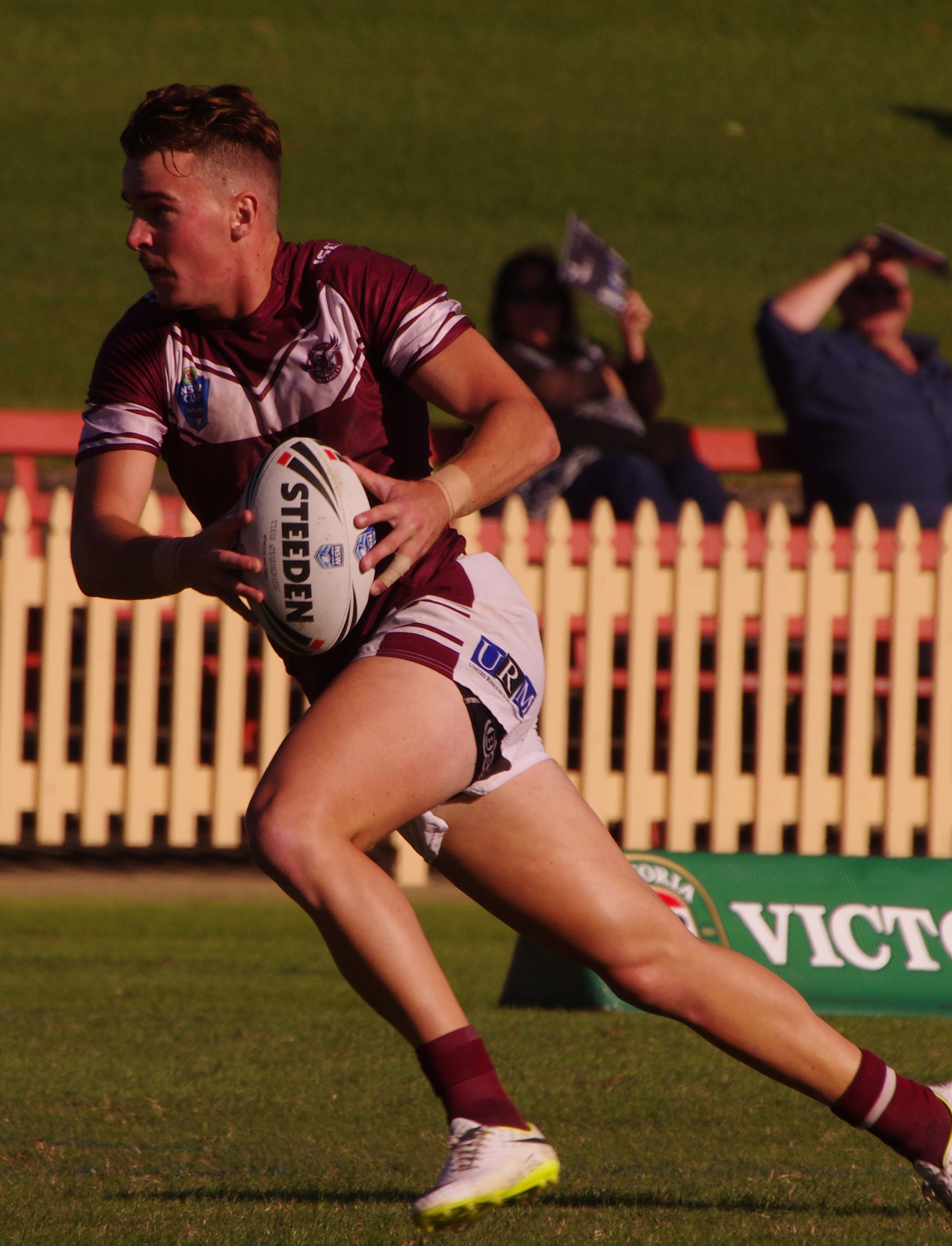 Clinton Gutherson